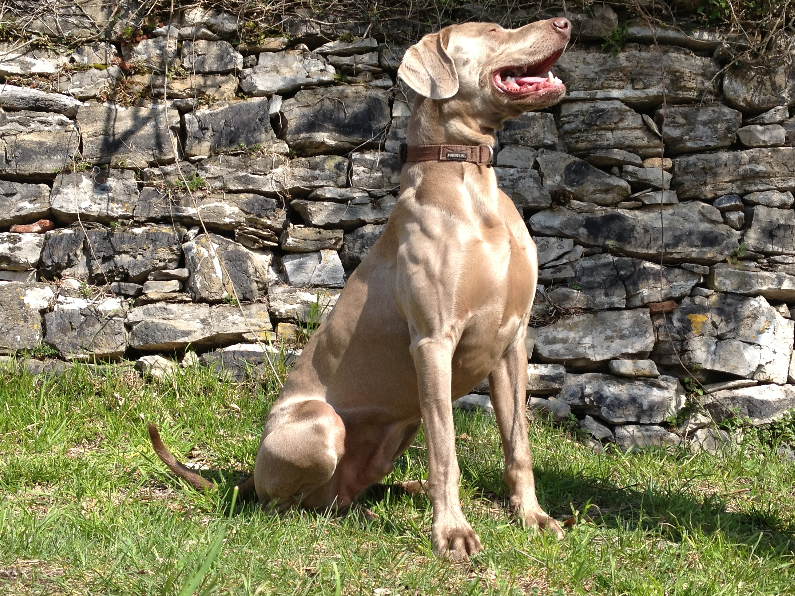 Adult male of Weimaraner